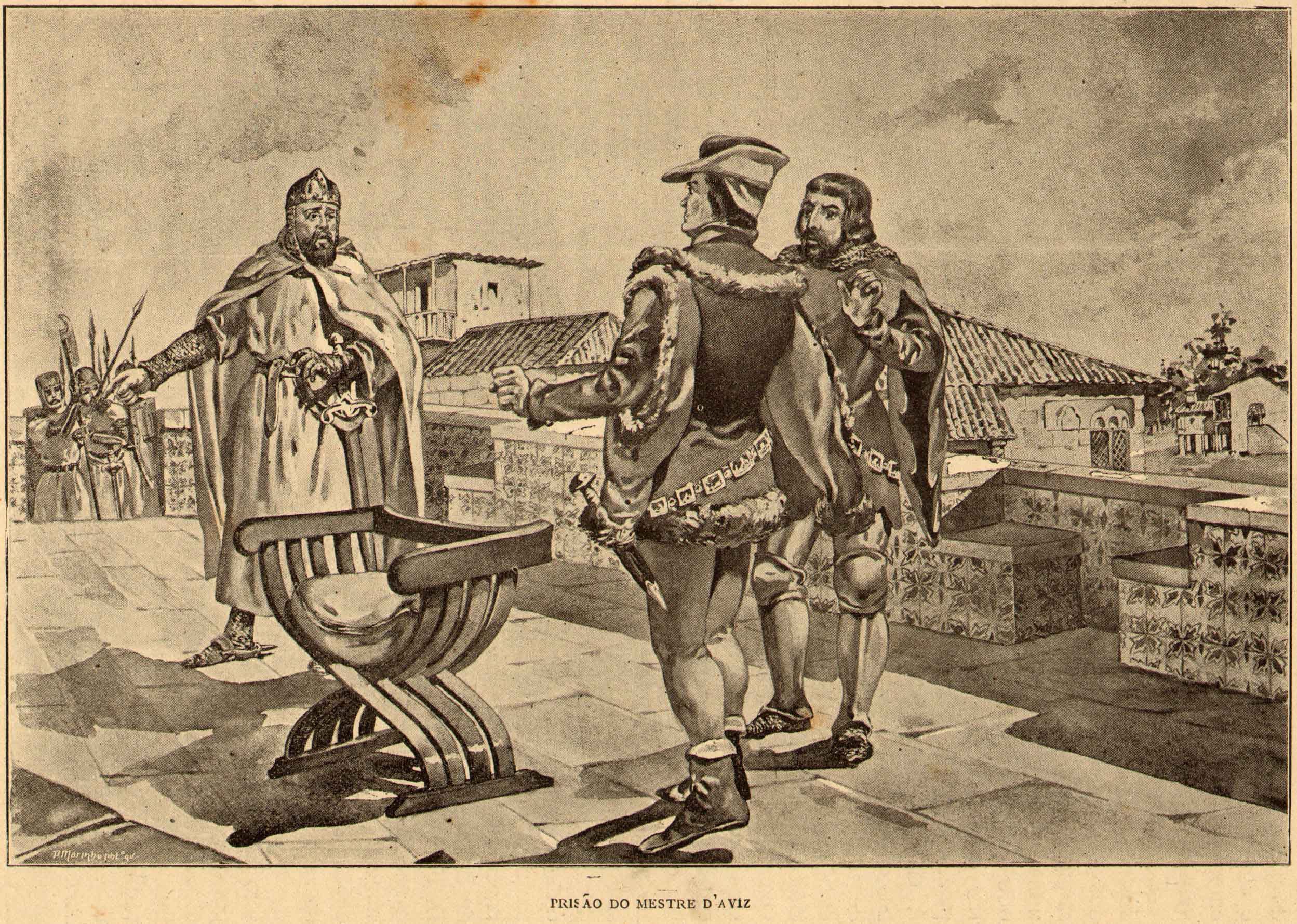 Illustration by Alfredo Roque Gameiro in the book História de Portugal, popular e ilustrada, by Manuel Pinheiro Chagas